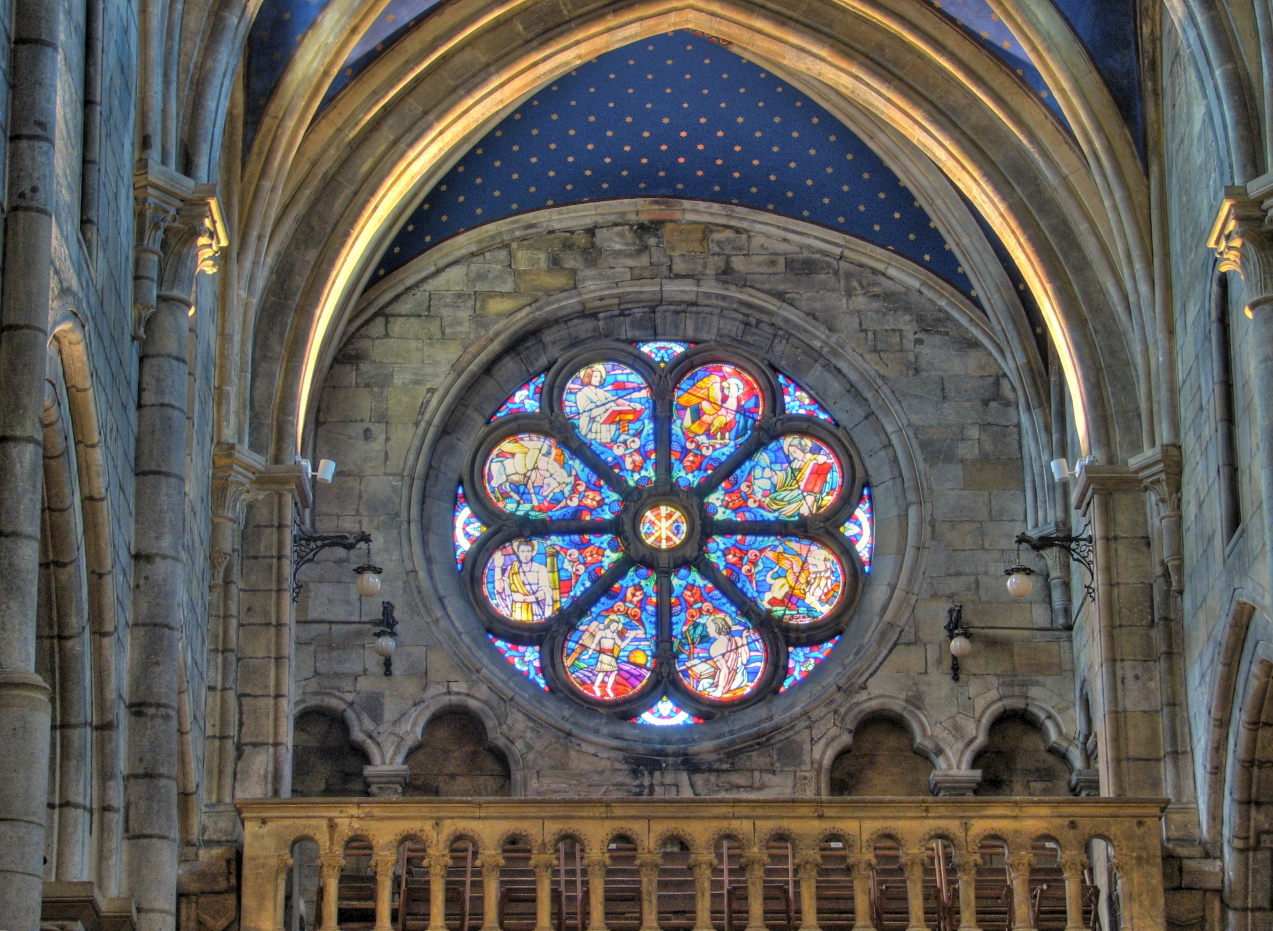 Rose window of the "collégiale de Neuchâtel"